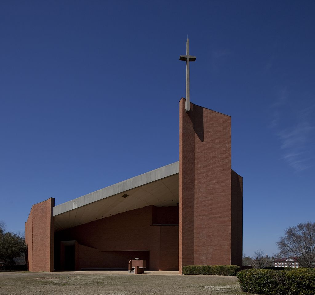 University Chapel, Tuskegee University, Tuskegee, Alabama